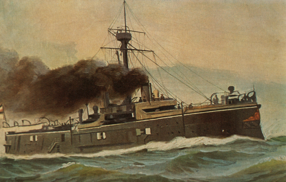 The German ironclad SMS Oldenburg (launched 1884) painted by Christopher Rave.